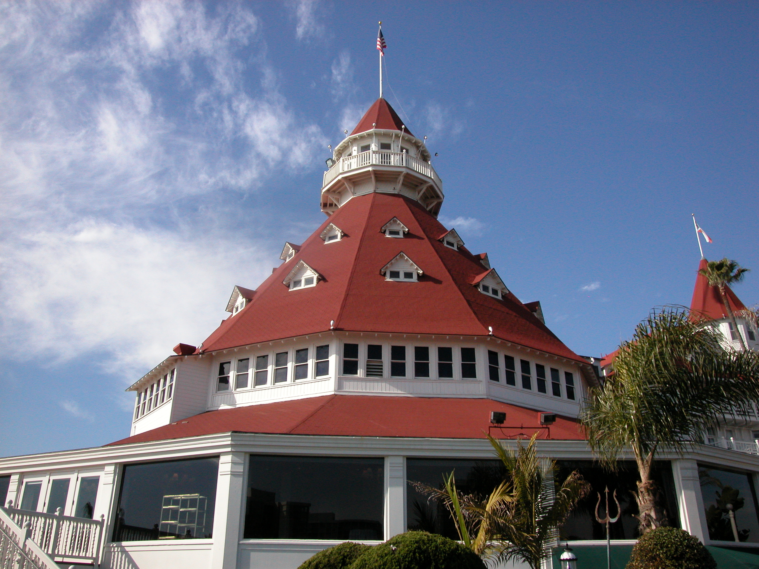 Main building of the Hotel del Coronado. Camera used is a Nikon Coolpix 5000.